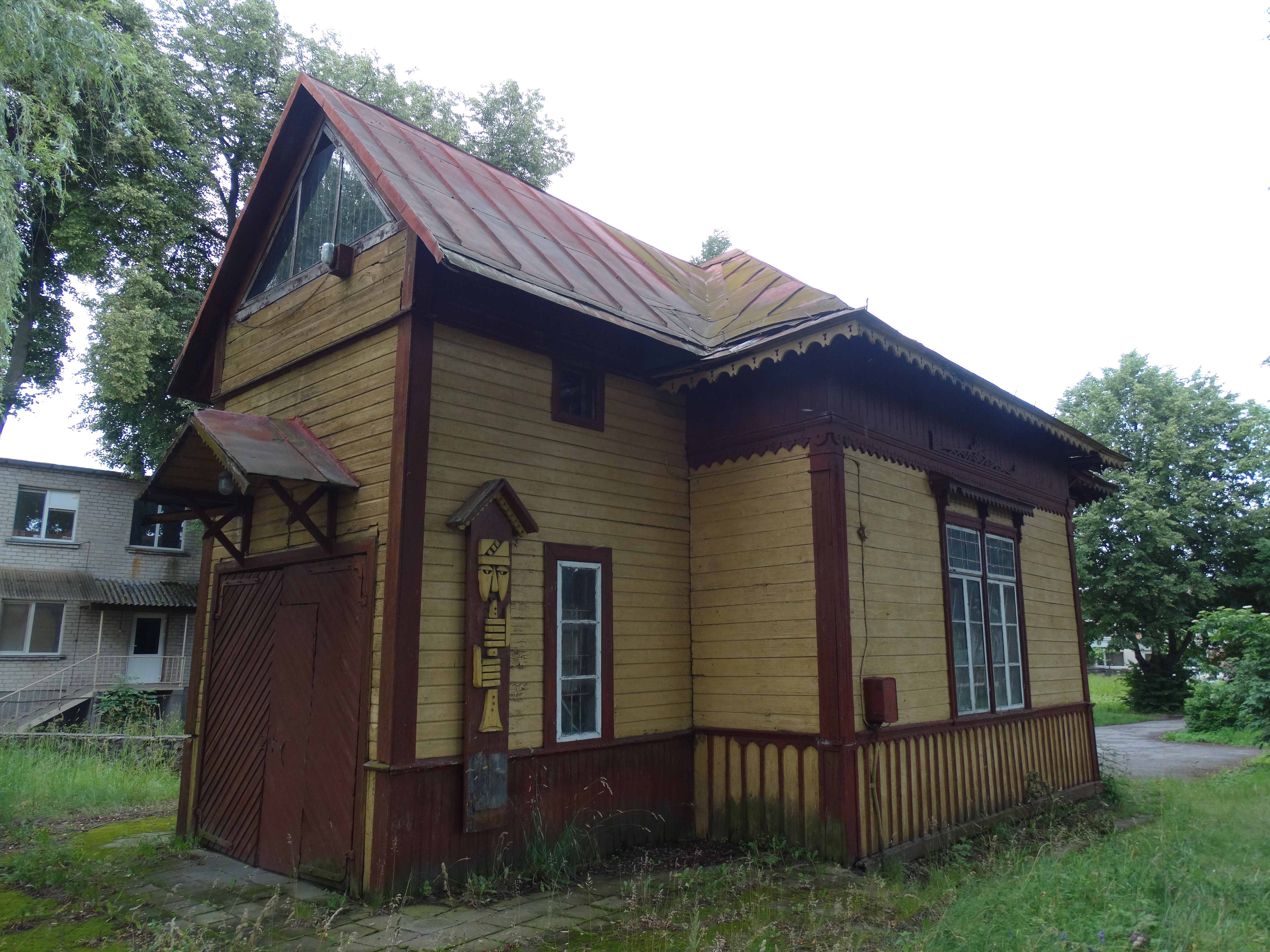 Former Russian Orthodox Church, Pasvalys, Lithuania